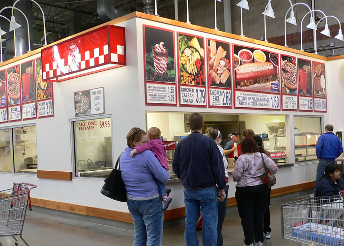 The foodcourt of the Overland Park, Kansas Costco.